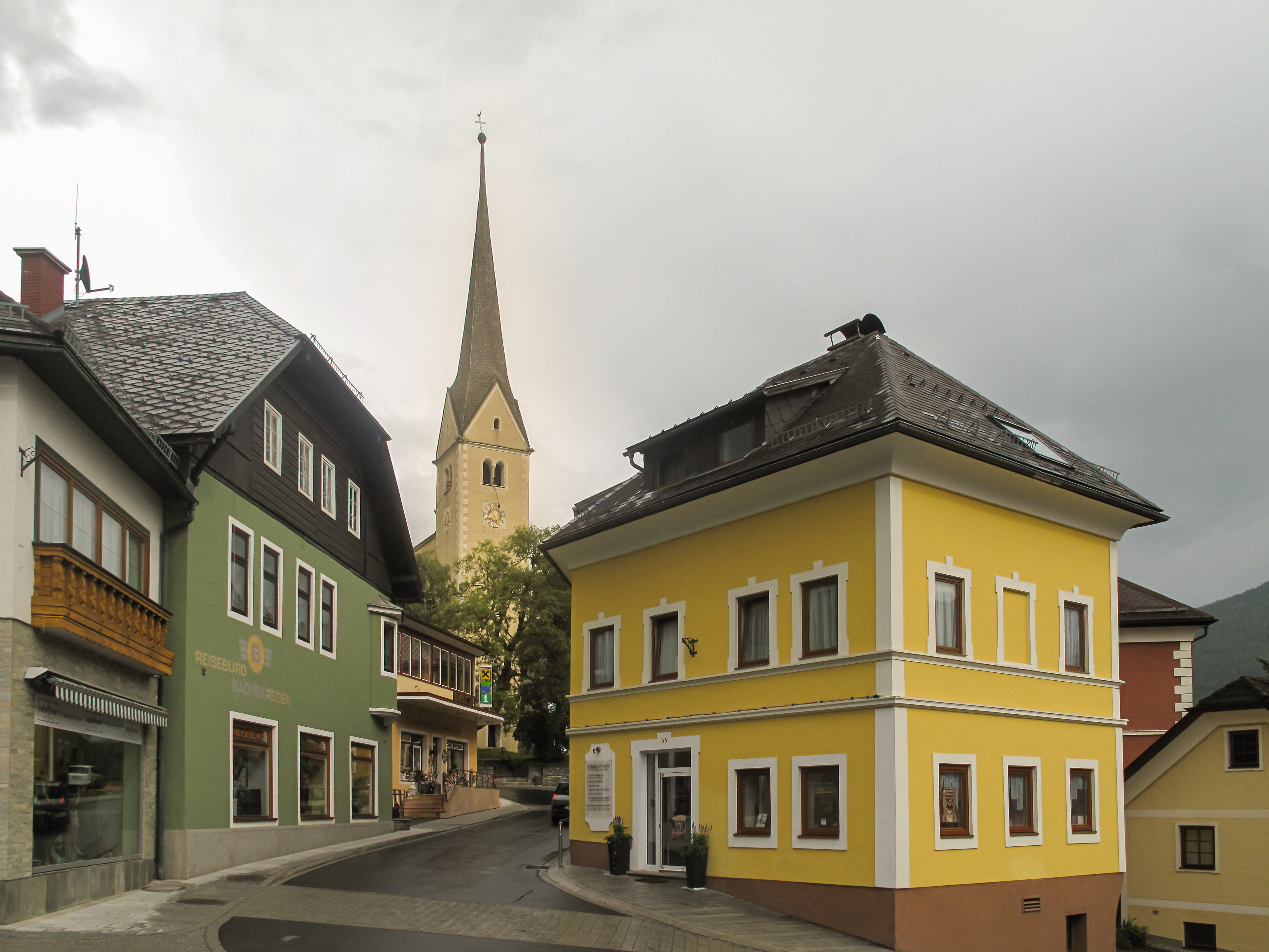 Sankt_Michael_im_Lungau,_churchtower in the street_